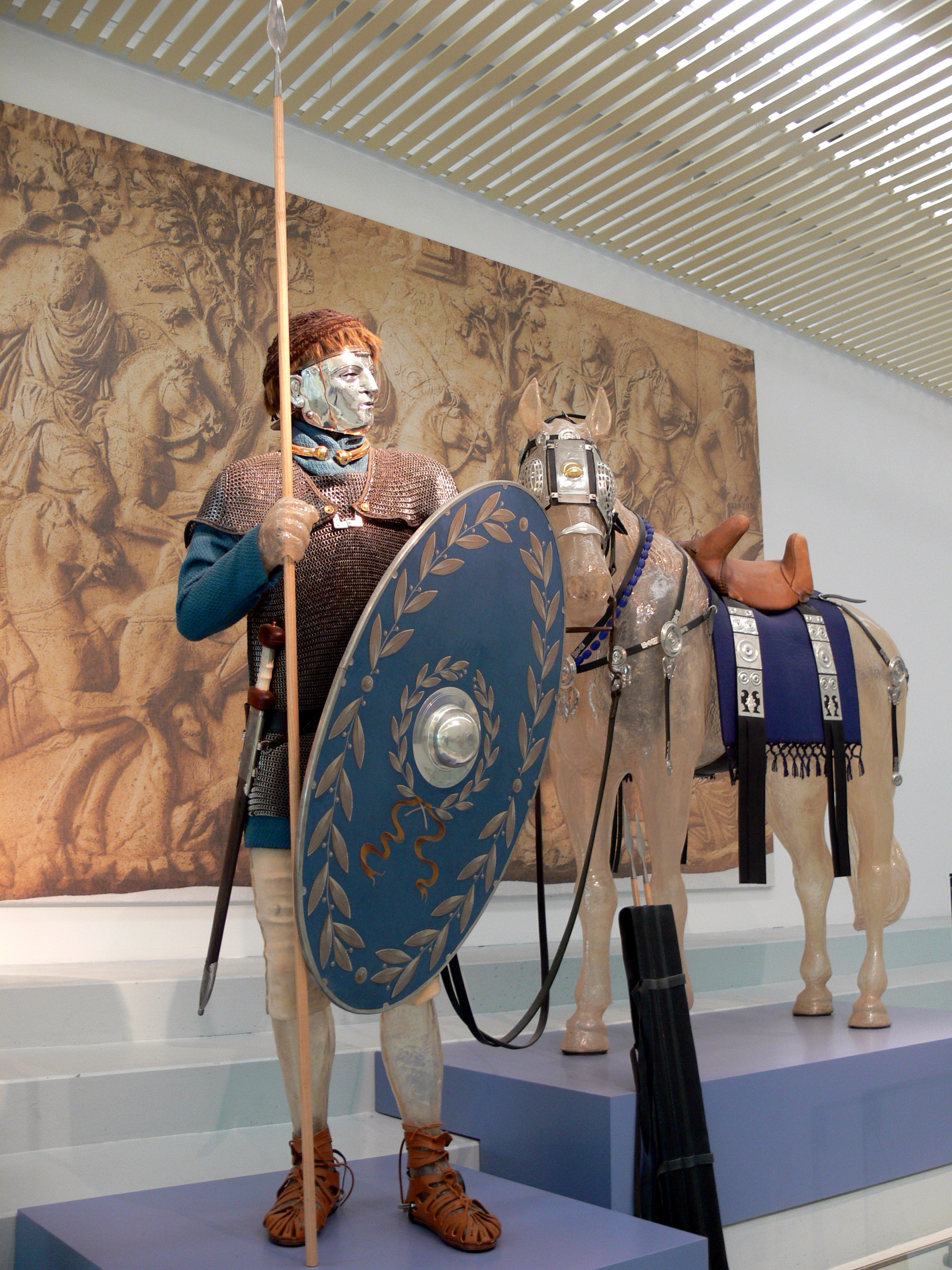 Museum Het Valkhof in Nijmegen ( Gelderland ). Member of the Roman cavalry with horse. Museum Het Valkhof Native nameMuseum Het ValkhofLocationNijmegenAddress Kelfkensbos 59 6511 TB Nijmegen Netherlands Coordinates51° 50′ 48″ N, 5° 52′ 16″ E Established1999Website control : Q1127079 VIAF: 158715438 ISNI: 0000 0004 0533 6734 GND: 5519052-2 SUDOC: 075891700 BNF: 15741638g